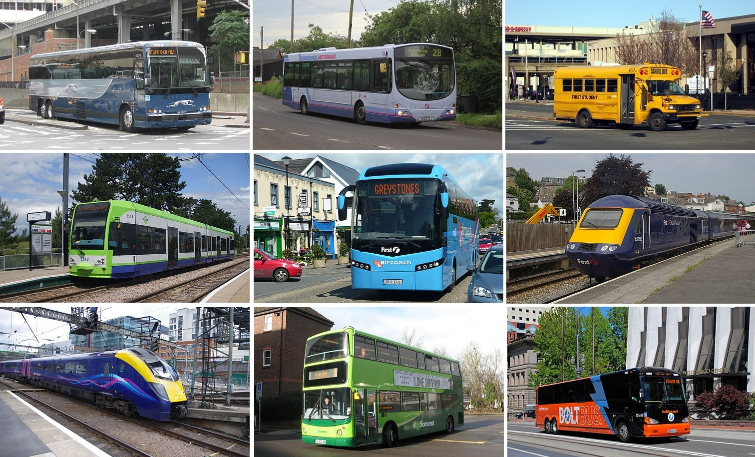 Mosaic of transport services operated by FirstGroup plc.